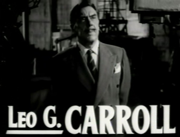 Cropped screenshot of Leo G. Carroll from the trailer for the film The Bad and the Beautiful.